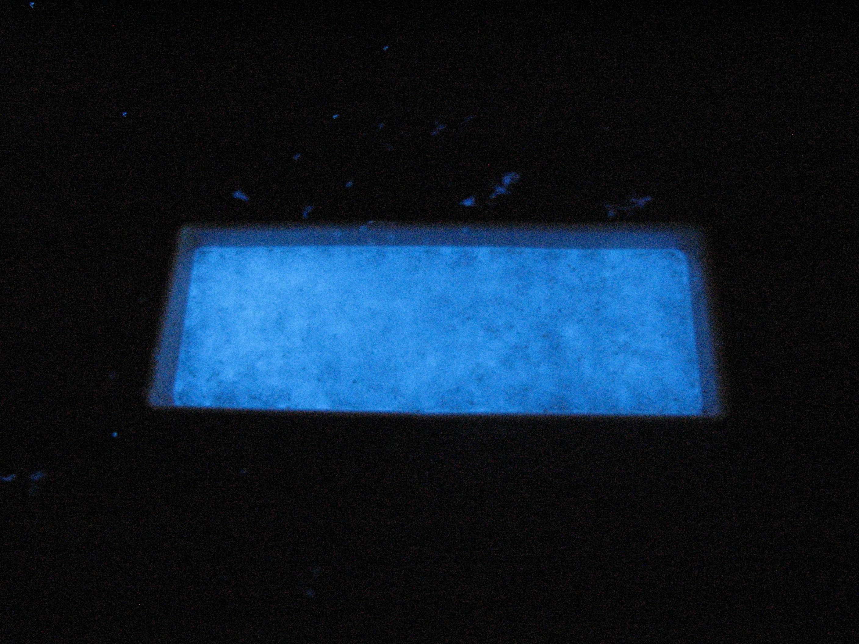 glowing ostracod, Futtsu city, Chiba, Japan.